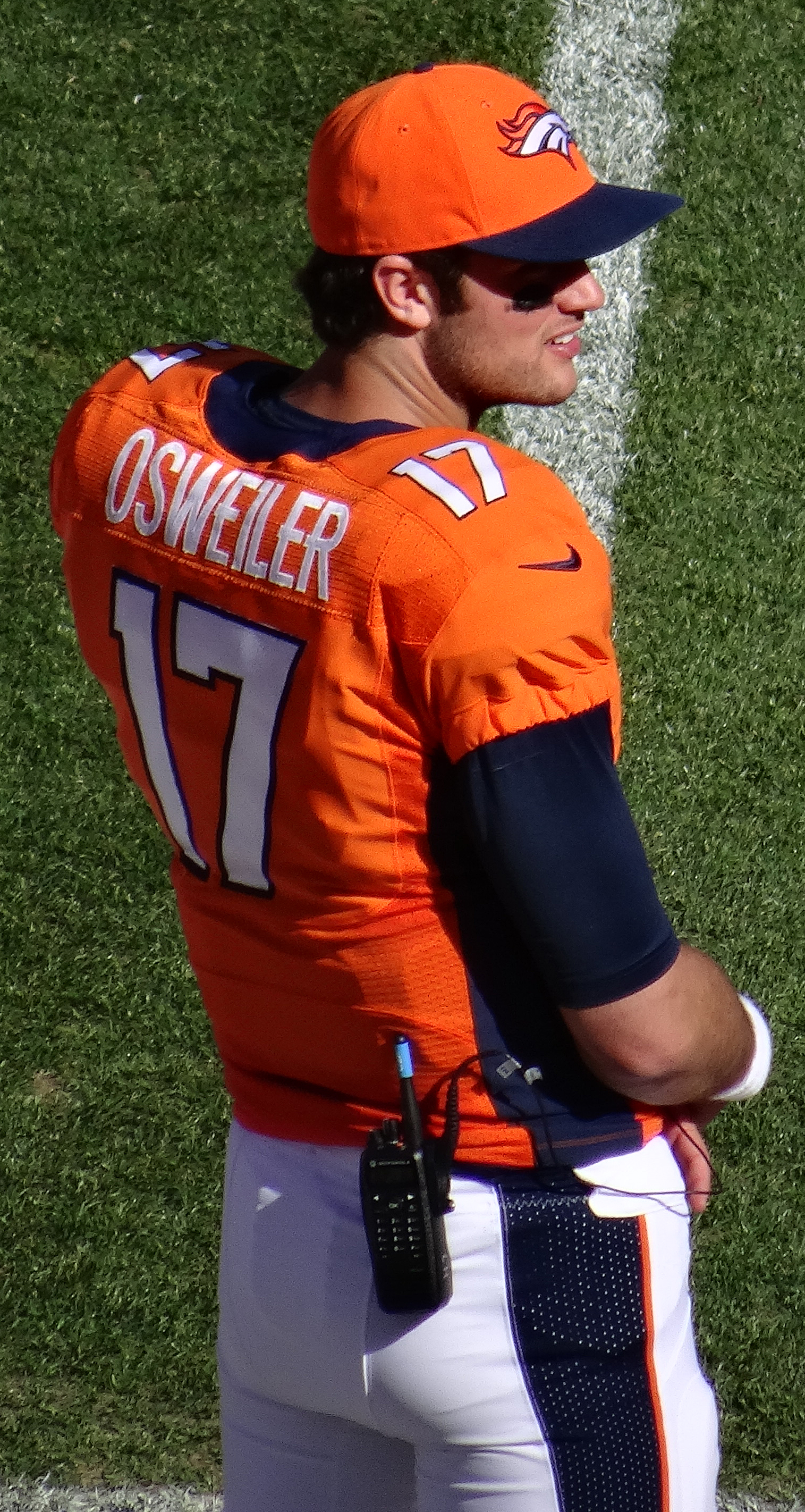 Brock Osweiler, a player on the National Football League.